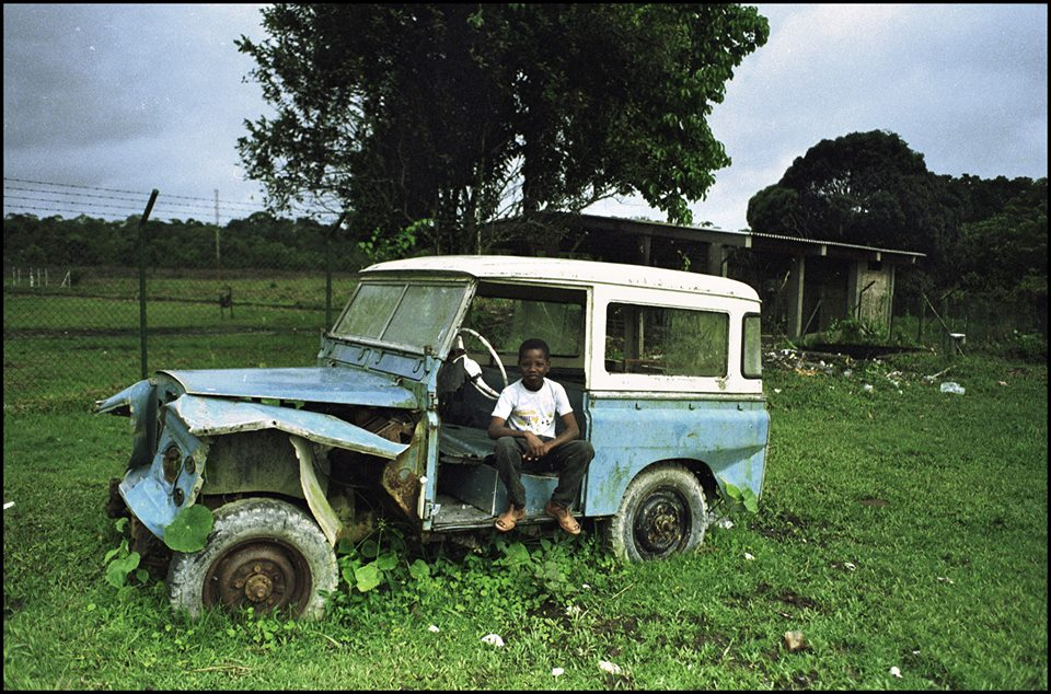 Niño guapireño